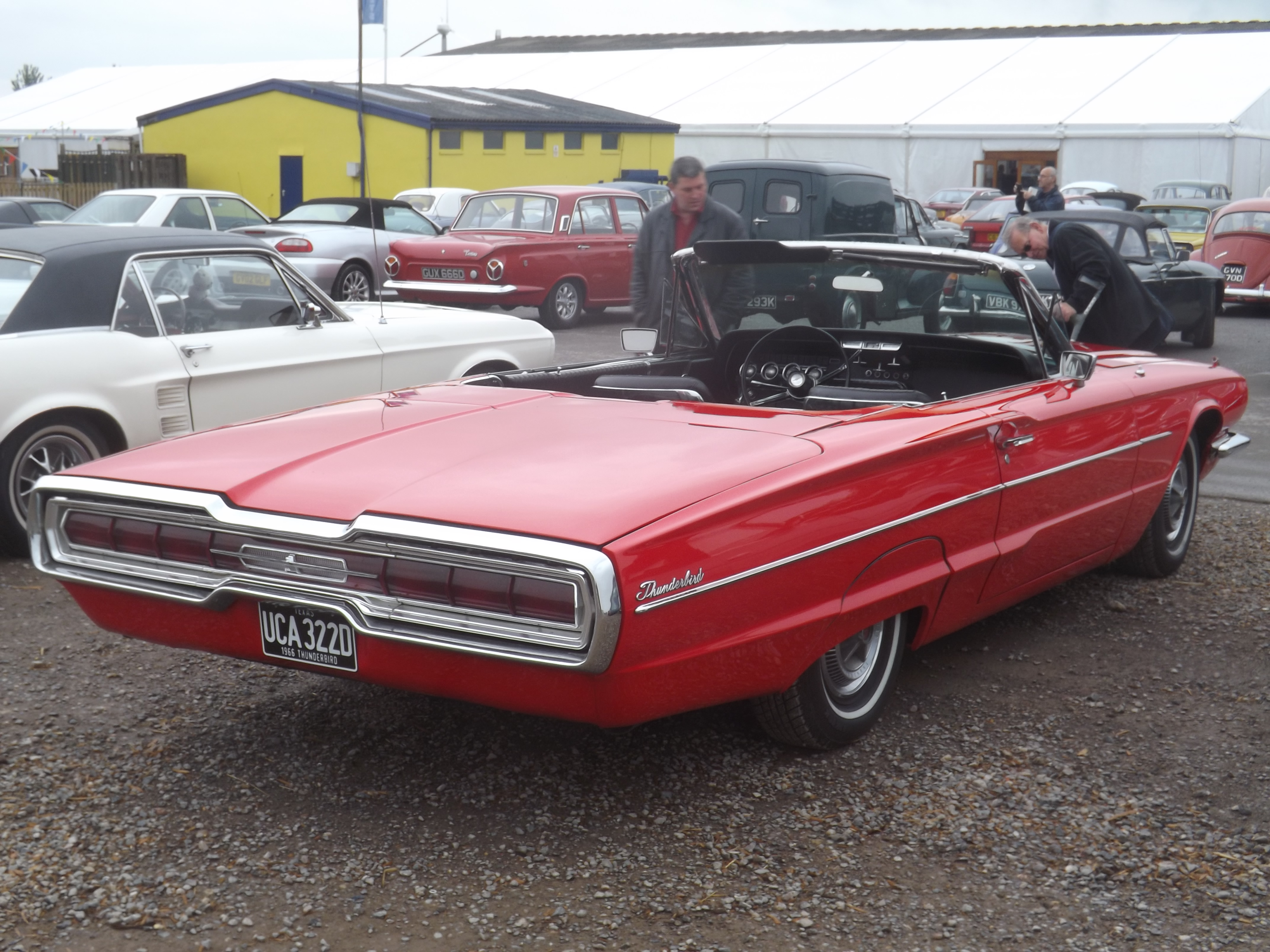 Bristol Classic Car Show, Royal Bath & West Showground, 13 June 2015